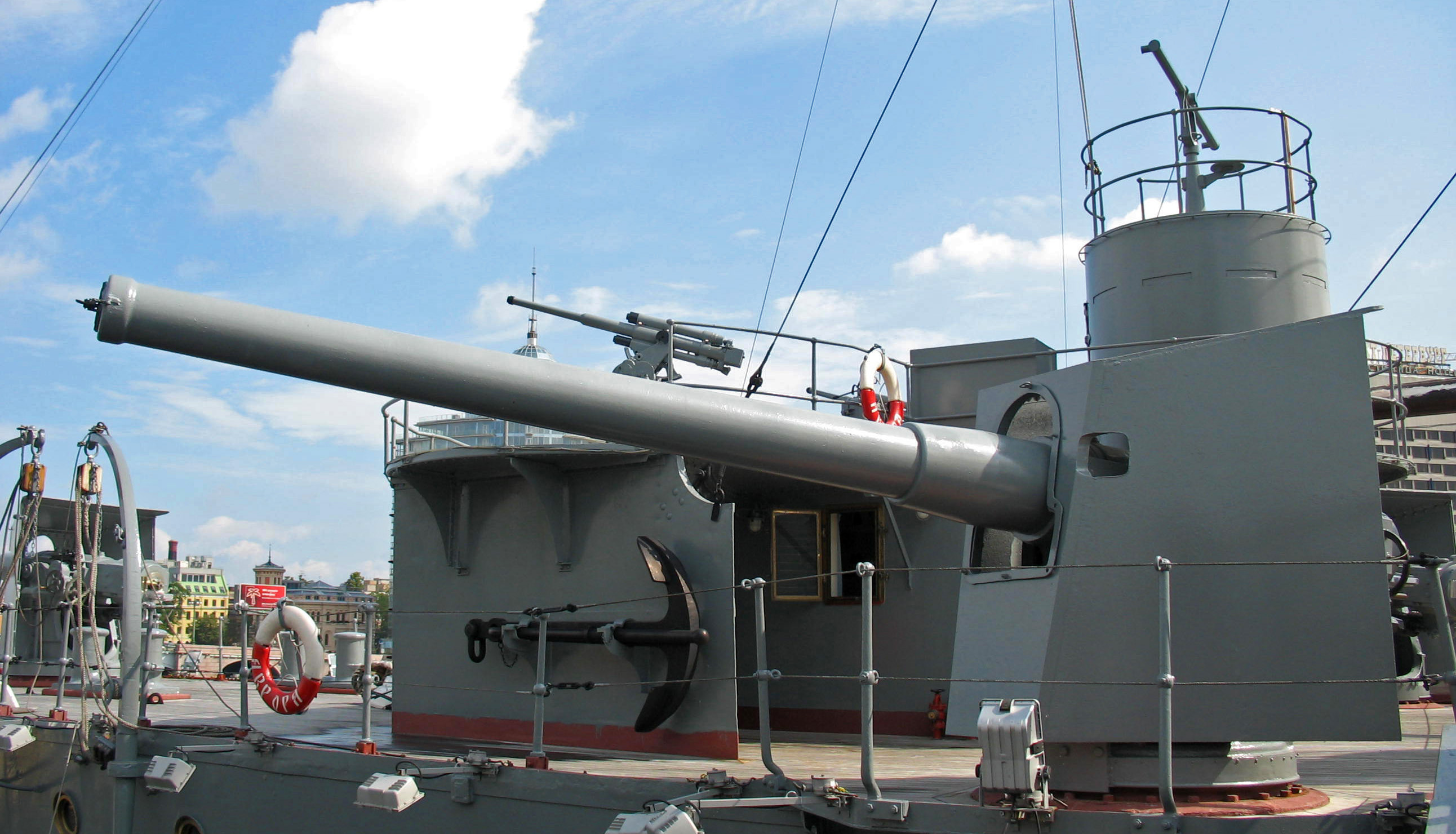 Cruiser Aurora. Gun.